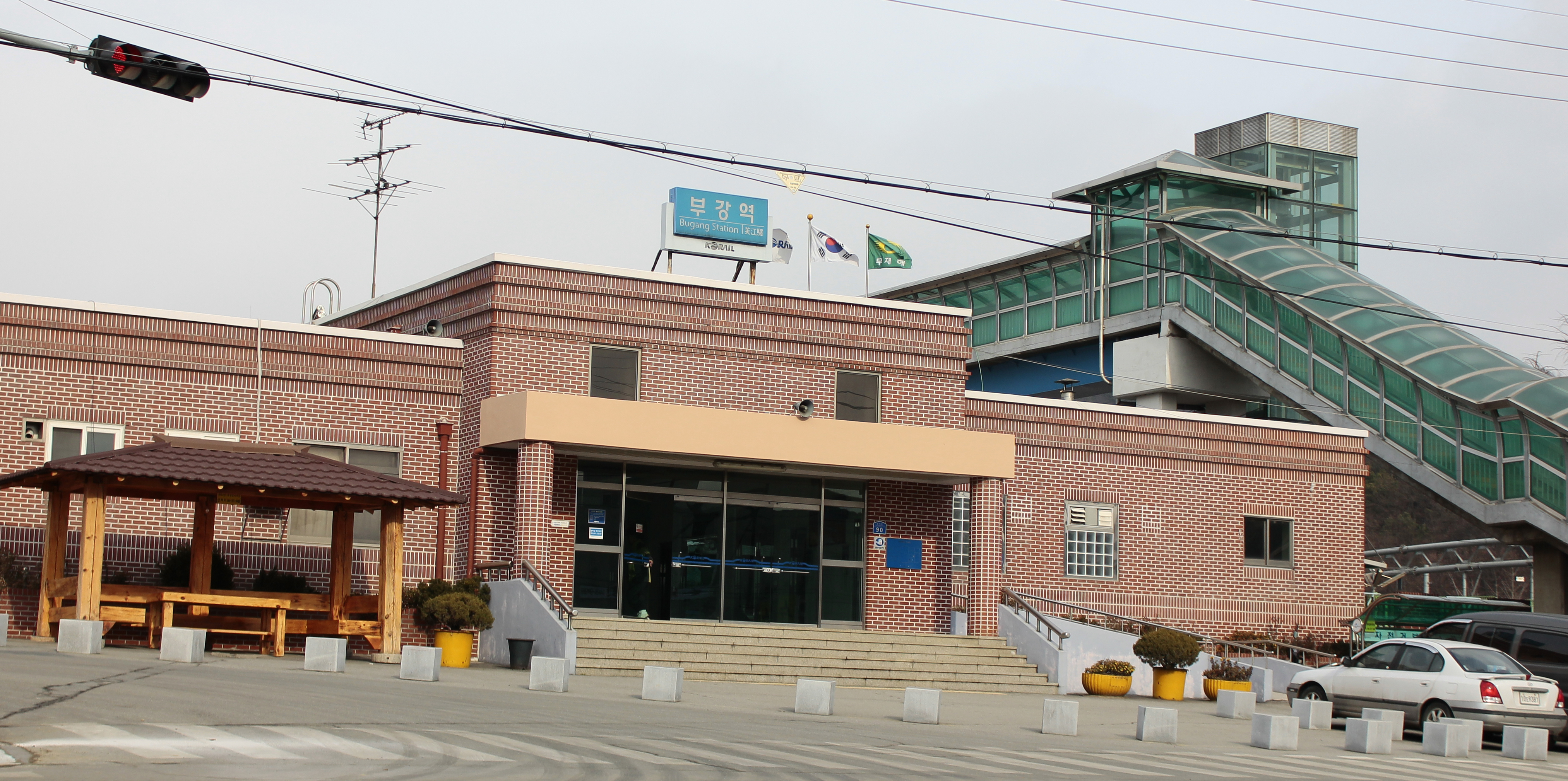 Korail Bugang Station